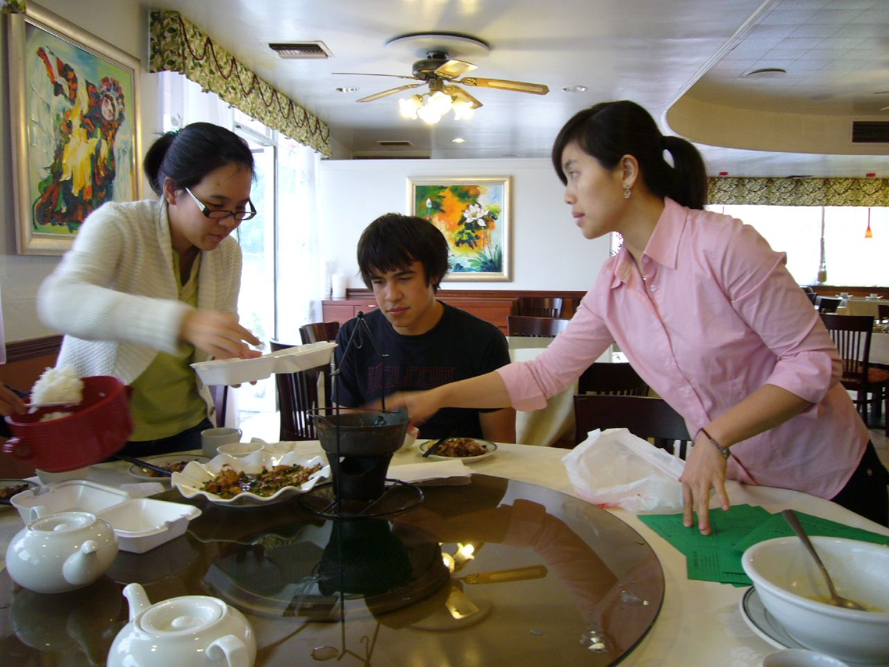 Cava and waitress packing up some leftovers while Kai watches